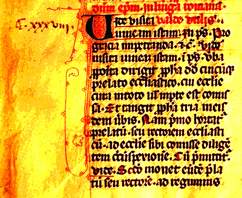 Paleography example